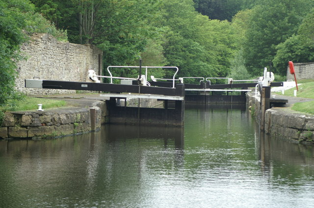 Weston Lock, Bath. At the bottom end of Weston Cut boats rejoin the main river through Weston Lock.